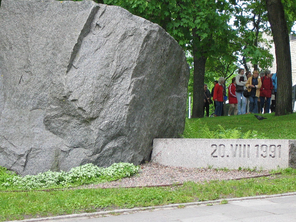 Monument to the restoration of independence on August 20, 1991 neighboring Lindamägi (Linda's Hill) became a symbol of grief for victims of Soviet oppression, and you could earn a prison sentence during Soviet rule simply by laying flowers here. Two years before independence, a human protest chain stretching from Tallinn to Vilnius (the capital of Lithuania) also began on this hill.